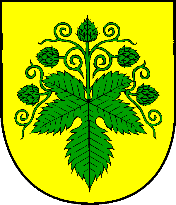 Coat of arms of the municipality Hummelfeld in Schleswig-Holstein, Germany.